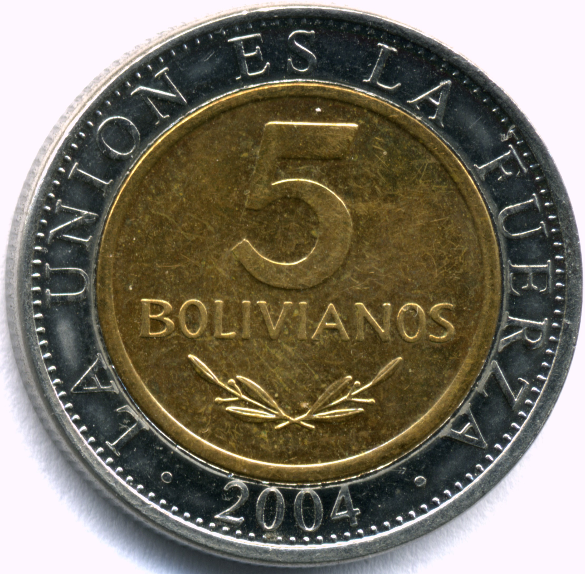 Bolivia 2004 Five Bolivanos bimetallic coins